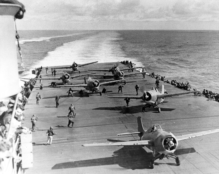 U.S. Navy Grumman F4F-4 Wildcat fighters of fighting squadron VF-8 launching from the aircraft carrier USS Hornet (CV-8), circa May/June 1942. The first aircraft (F-9) was piloted by Ens. Charles M. Kelly Jr. After a fruitless search for the Japanese fleet on 4 June 1942, his plane ran out of fuel and ditched, but he could not be rescued.